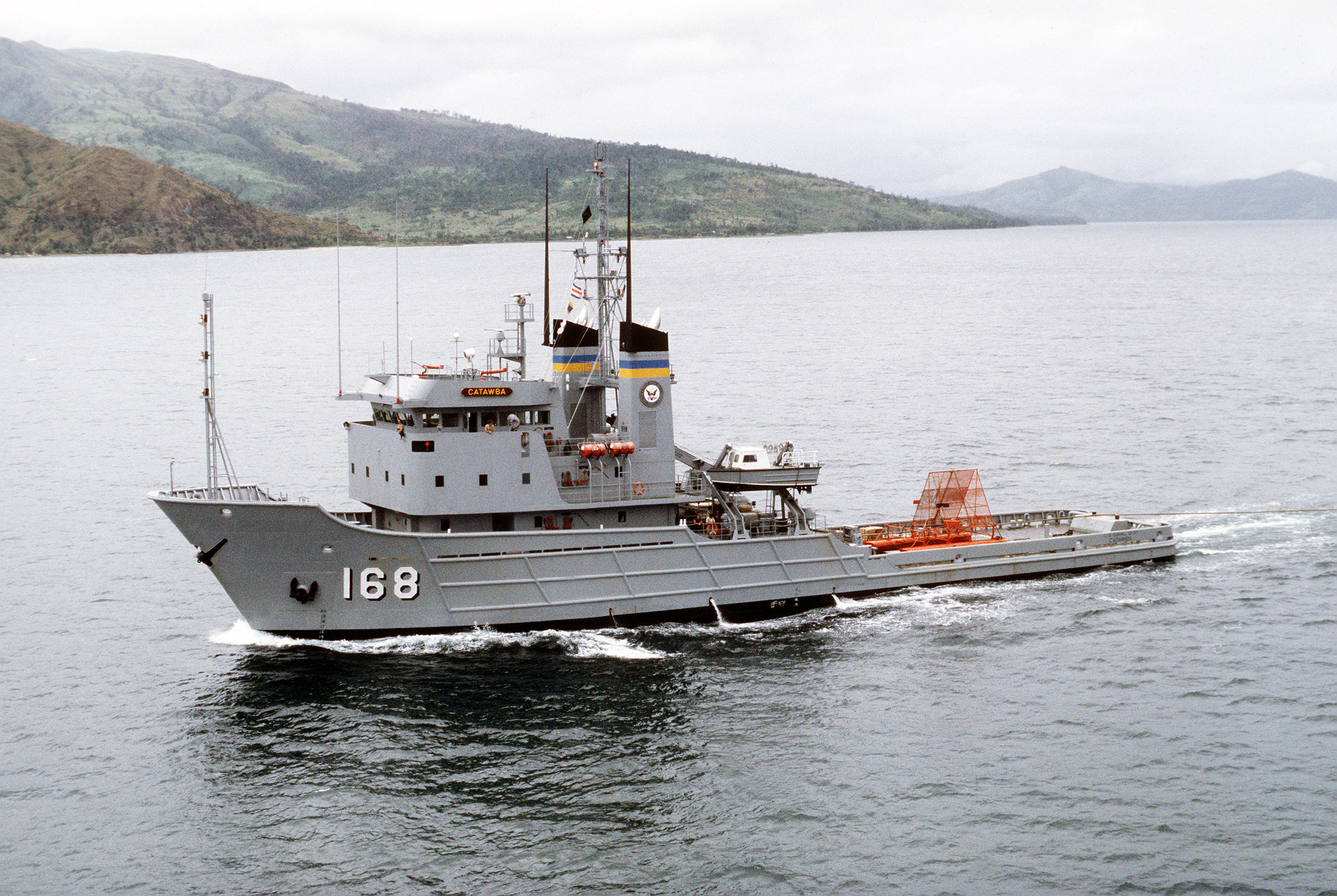 A port bow view of the Fleet ocean tug USNS CATAWBA (T-ATF-168) underway while towing two barges. The CATAWBA is carrying an orange target sled on deck. Location: NAVAL STATION, SUBIC BAY, LUZON PHILIPPINES (PHL)